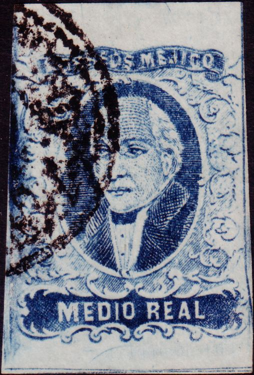 Mexico 1856, medio real, plate I, pos. 60. Apam remainder.